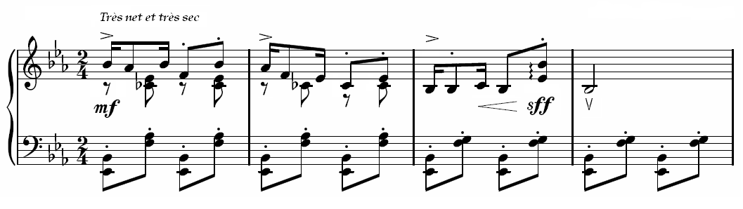 Four bars from Debussy's Golliwogg's cake-walk (extracted from Children's Corner)